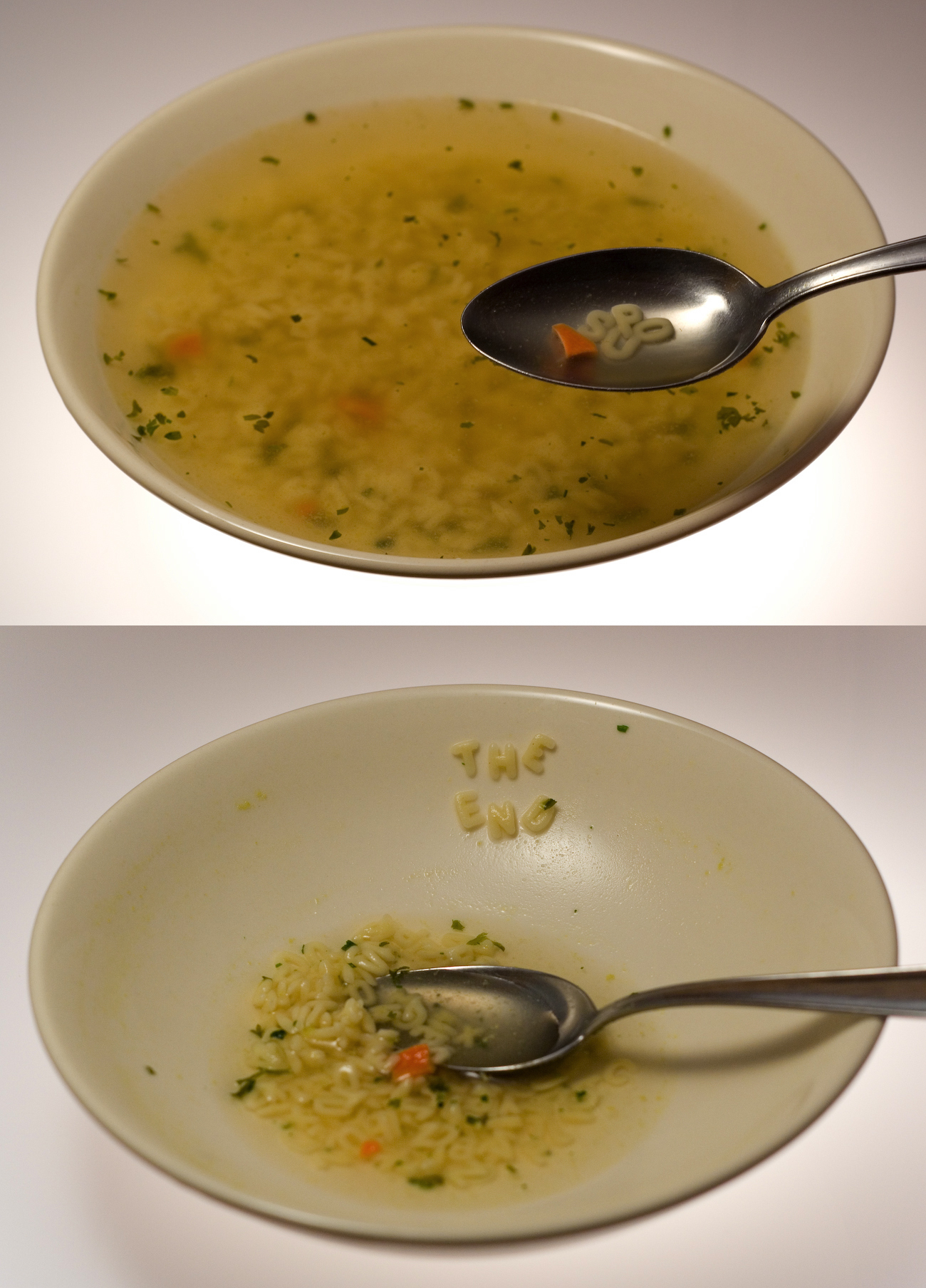 A bowl of alphabet soup nearly full, and nearly empty, spelling "THE END" in the latter case